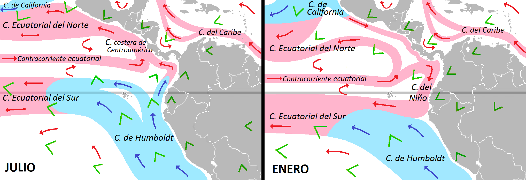 Equatorial Pacific currents and winds of tropical America. In blue the cold currents, in red the warm and in green the trade winds.